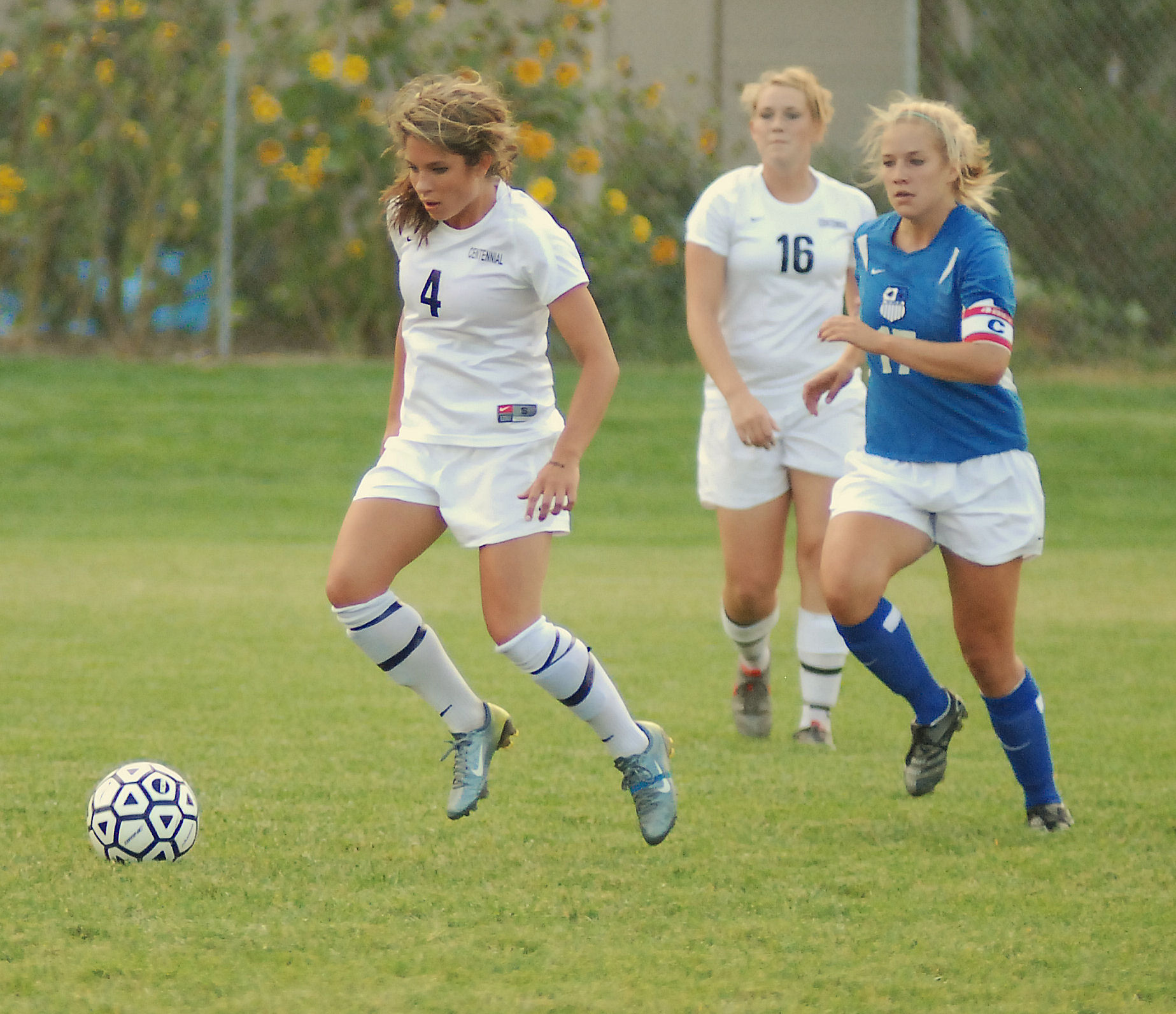 Girls playing Soccer.